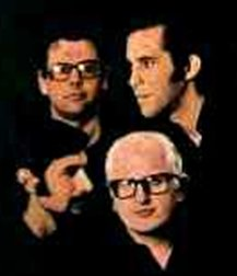 Opus Cuatro. Vocal Folk Group. Argentina: up left: Lino Bugallo; up right: Federico Galiana; down left: Aníbal Bresco; down right: Alberto Hassán